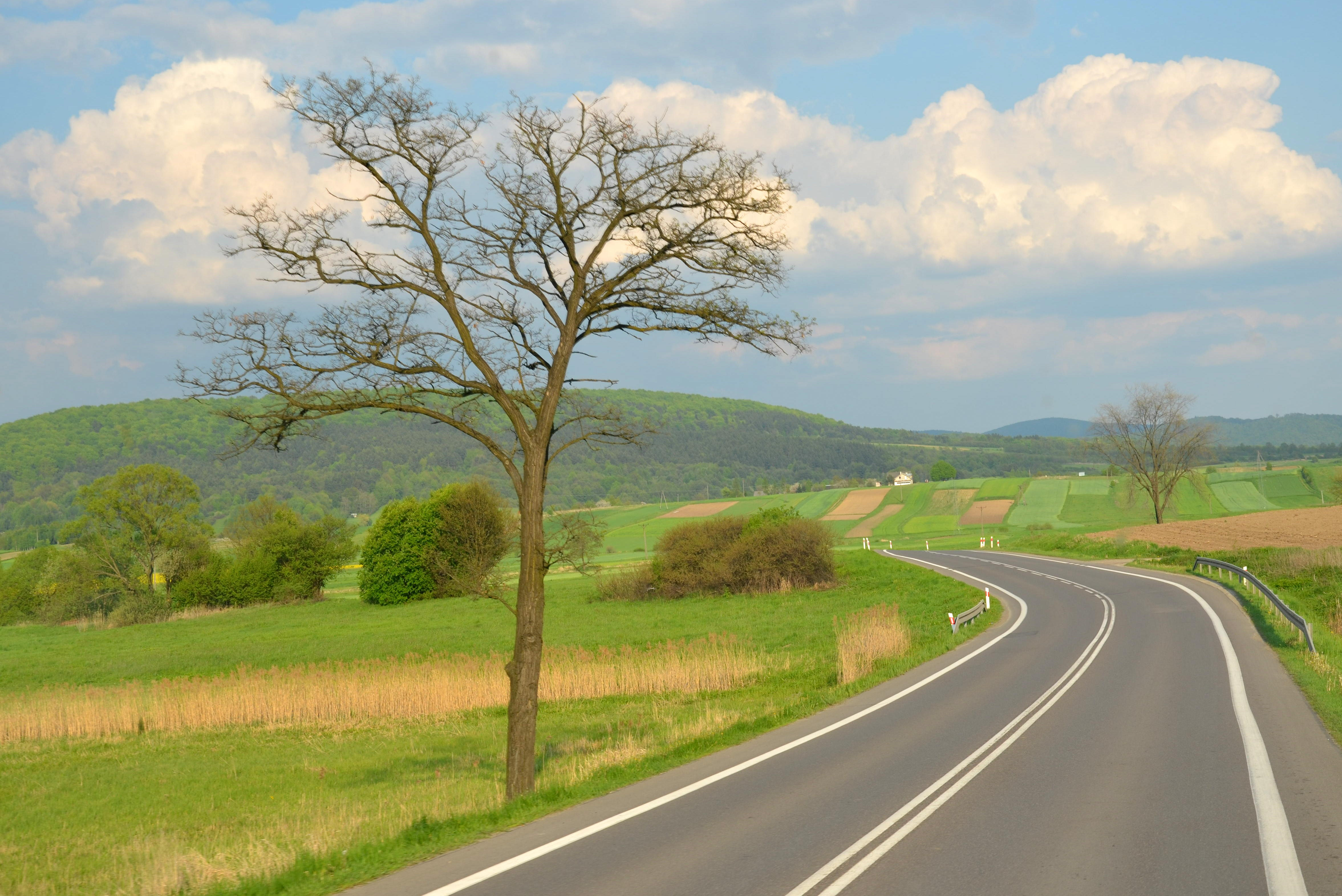 Wroczeń